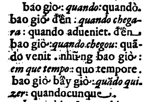 An example of a horn being combined with an apex in Dictionarium Annamiticum Lusitanum et Latinum (1651). (Entry “bao giơ᷄ đến”, column 27, PDF page 25.)